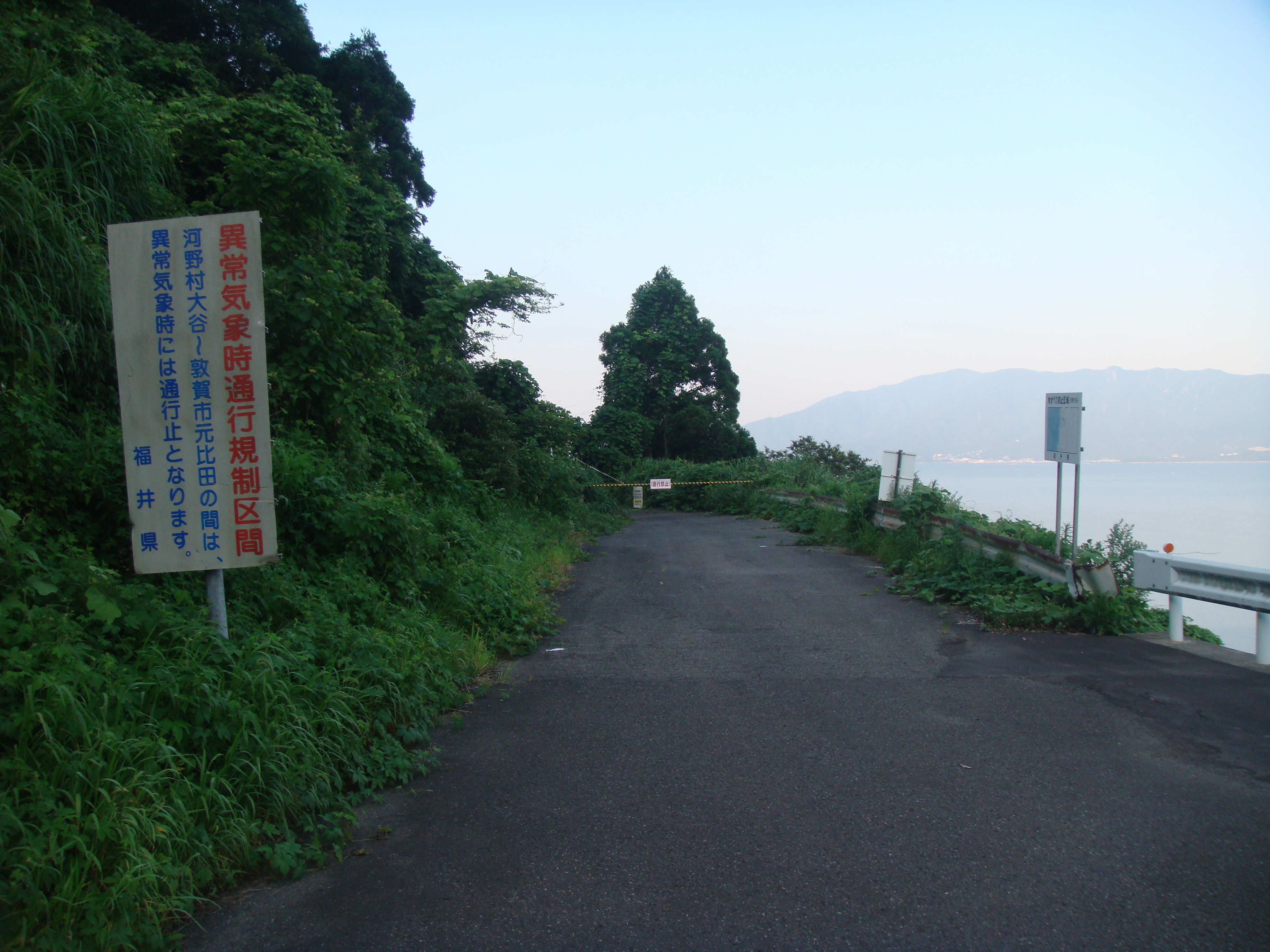 The Fukui Prefectural Road Route 204 in Otani, Minamiechizen Town. Signboard says: Restricted Traffic In Severe Weather: In case of severe weather road will be closed between Otani and Motohida, Tsuruga City